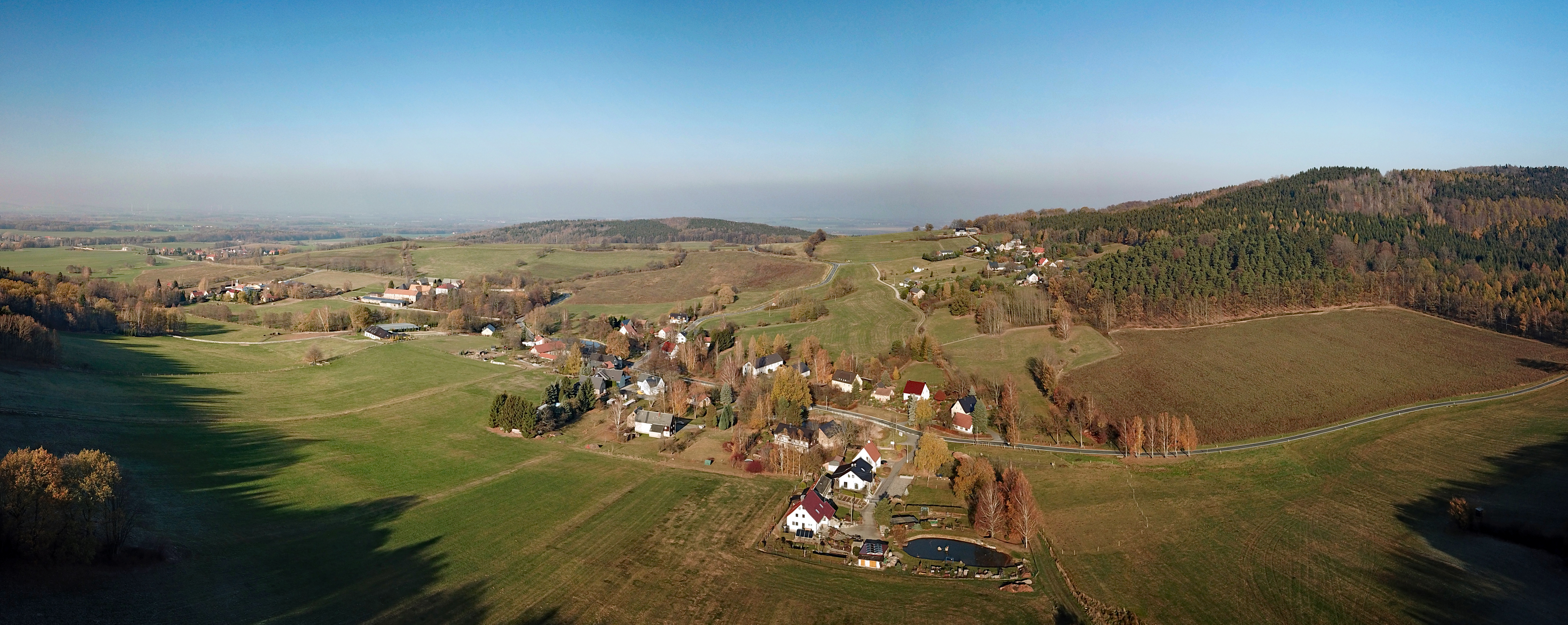 Arnsdorf (Doberschau-Gaußig, Saxony, Germany) Hornjoserbsce: Powětrowy wobraz Warnoćic